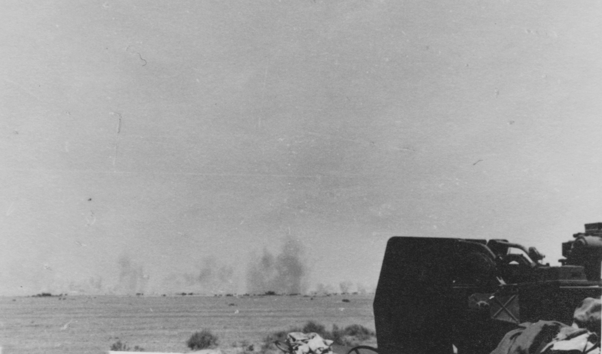 In the foreground German 2 cm anti-aircraft gun, in the background German Luftwaffe bombing on Bir Hakeim